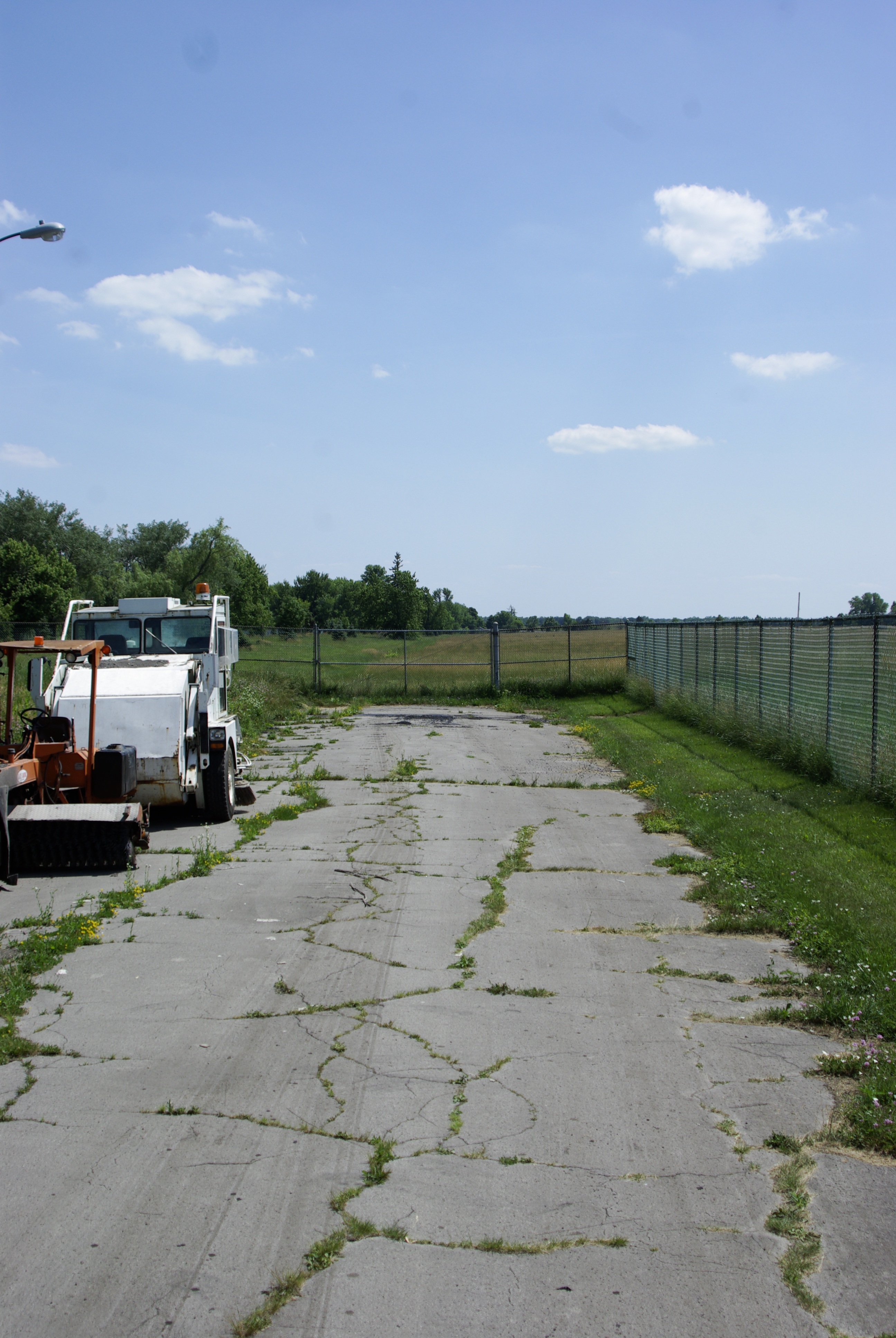 A view of 99th Street in Niagara Falls, New York, ending in the Love Canal site.